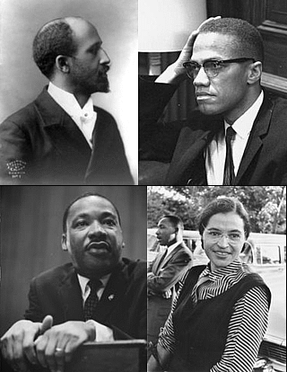 Modified version of Image:Africanamericans.PNG presenting montage in two (shorter) rows rather than one. Licensing as at Image:Africanamericans.PNG. licensed Top left: Image:WEB_Du_Bois.jpg Top right: Image:Malcolm-x.jpg Bottom left: Image:Martin-Luther-King-1964-leaning-on-a-lectern.jpg Bottom right: Image:Rosaparks.jpg